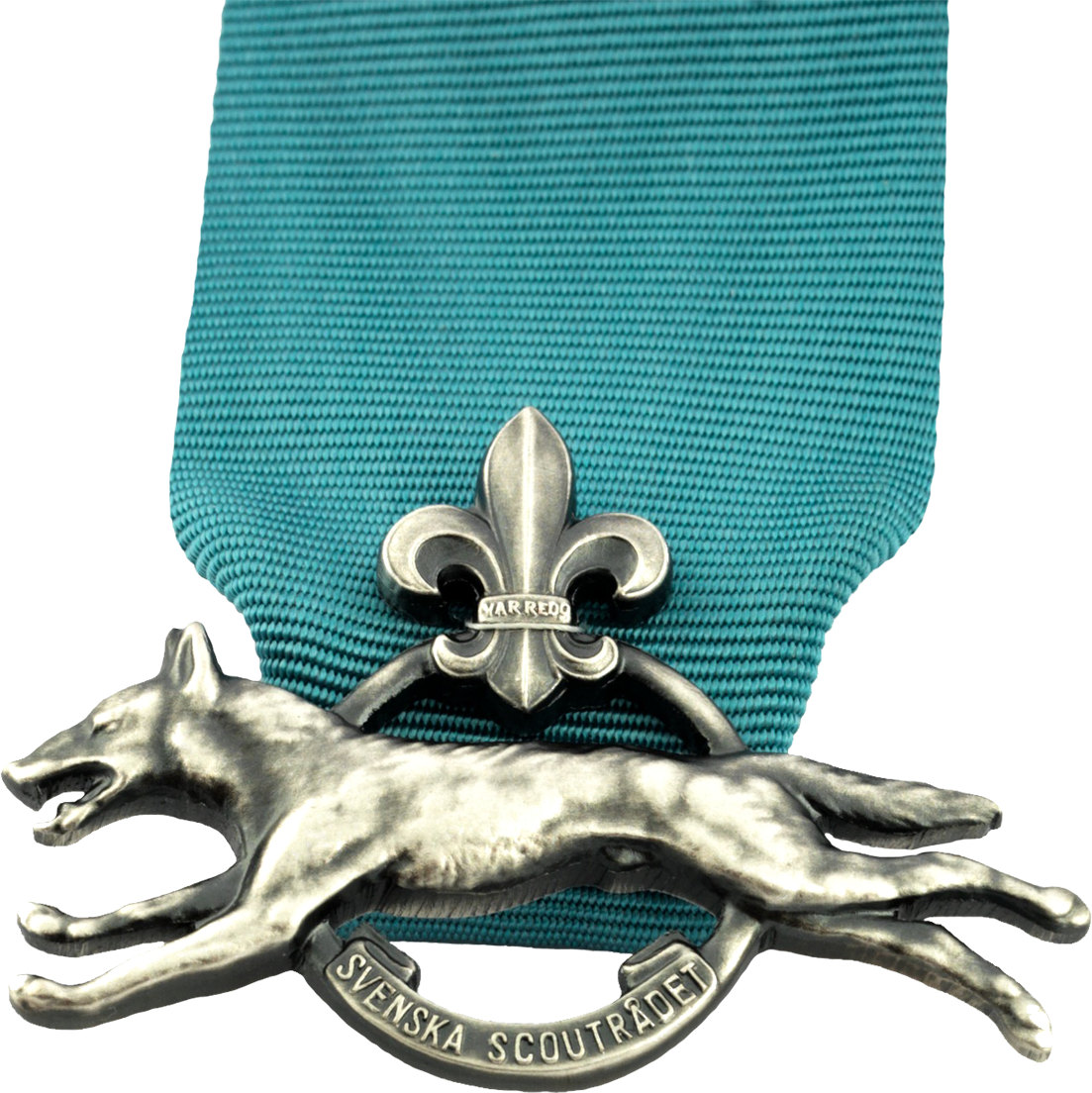 Silvervargen is the highest award in Swedish Scouting.